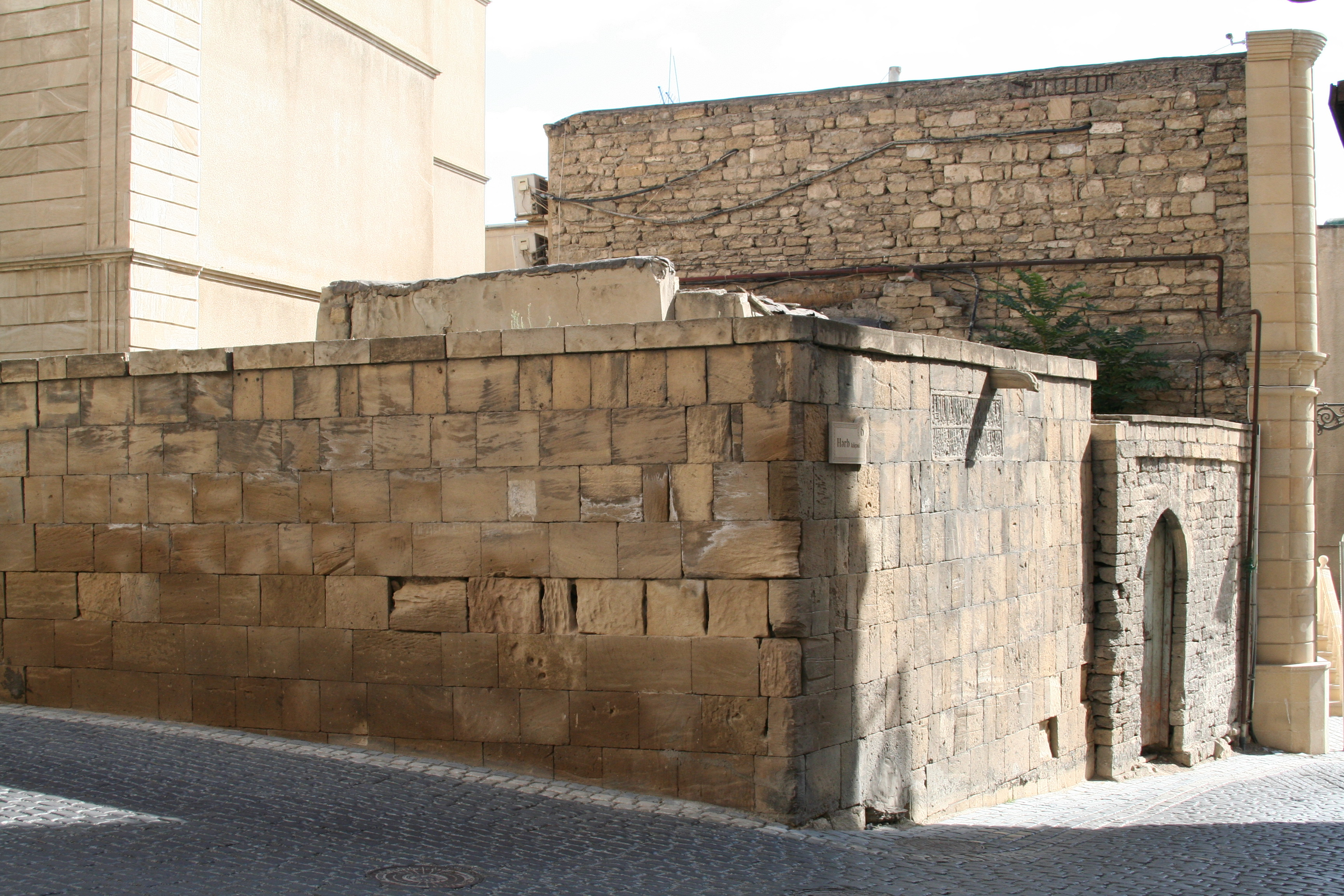 Mirza Ahmed Mosque. Built in 1345